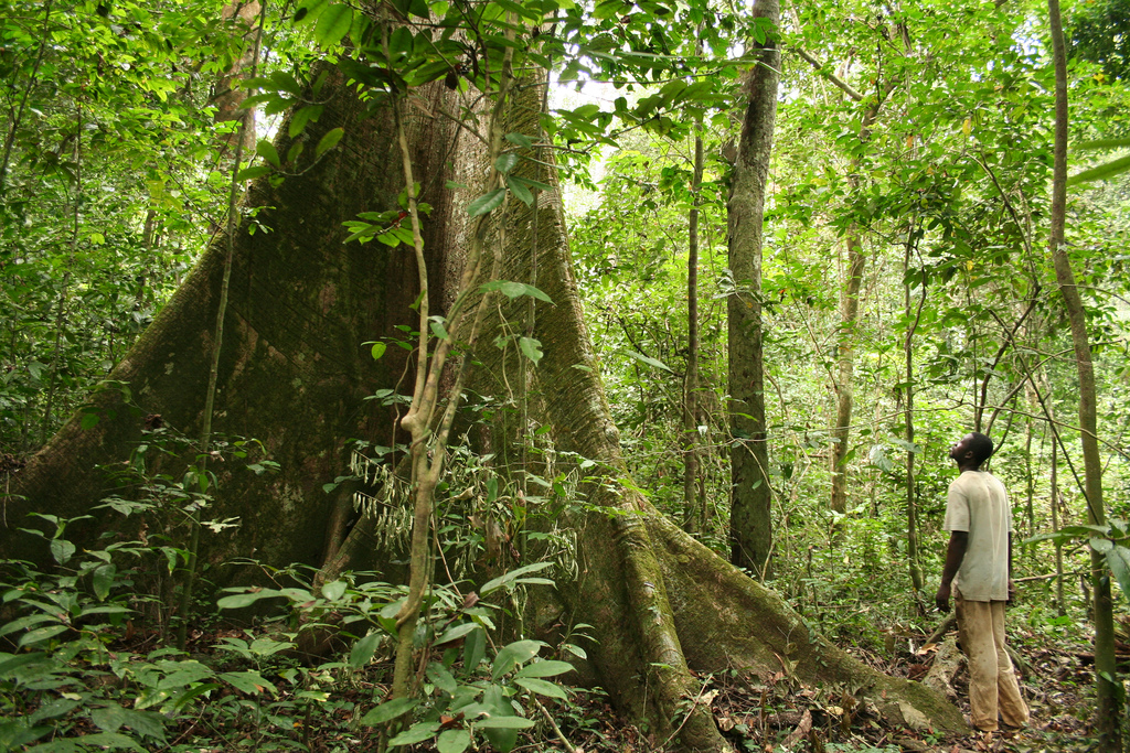 Rainforest, Gabon. Rainforest, Gombe, Gabon, Africa, Gabon.